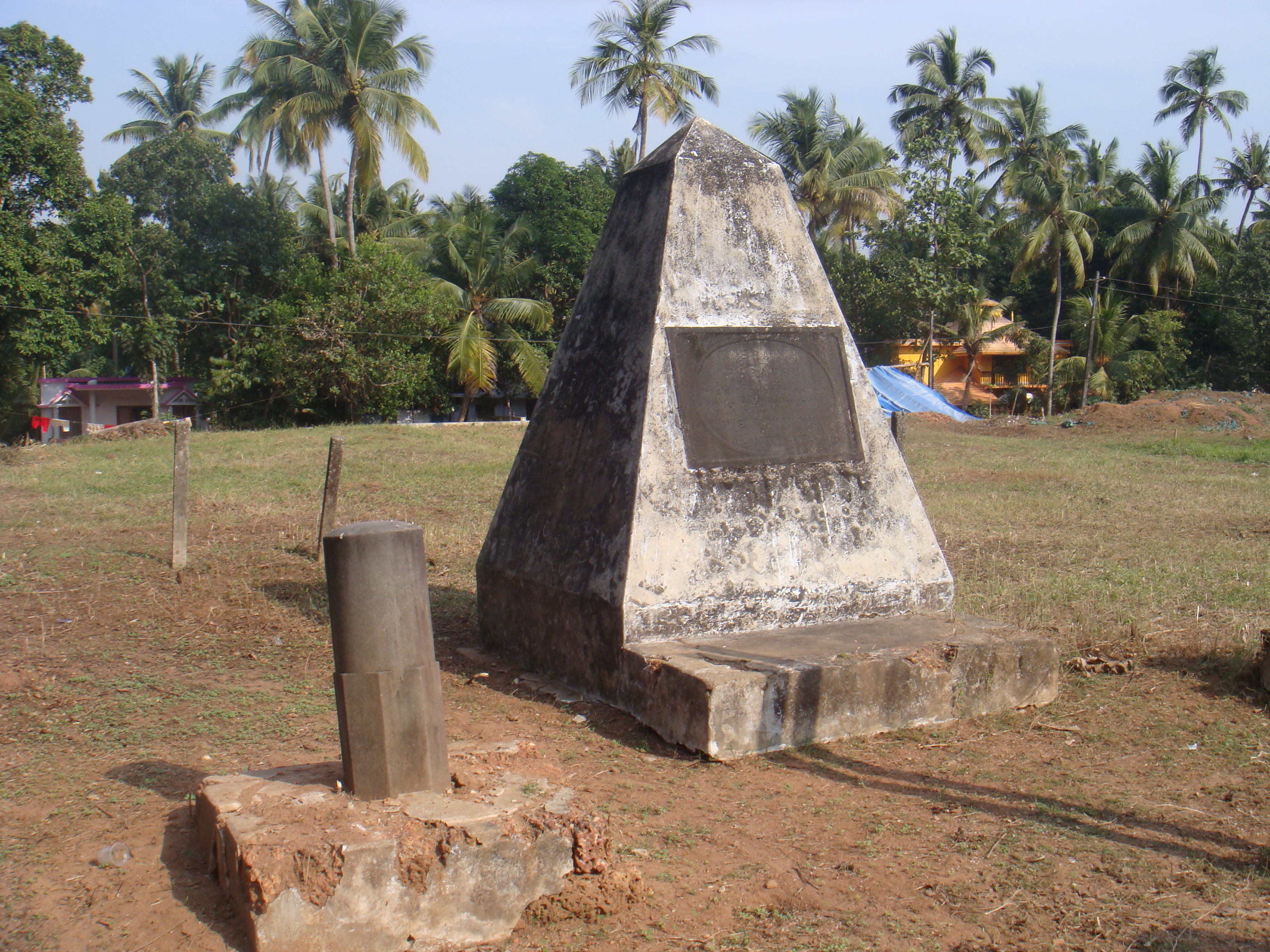 Cheraman parambu - Kodungalloor